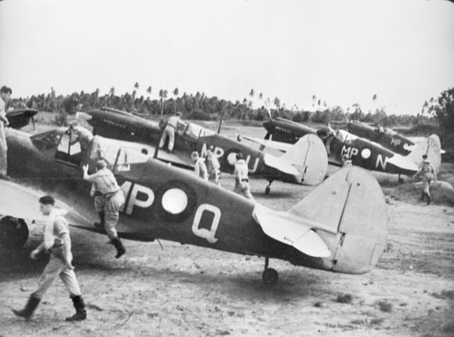 Members of No. 86 Squadron RAAF about to take off in their Kittyhawk fighters. AWM photo P02864.004